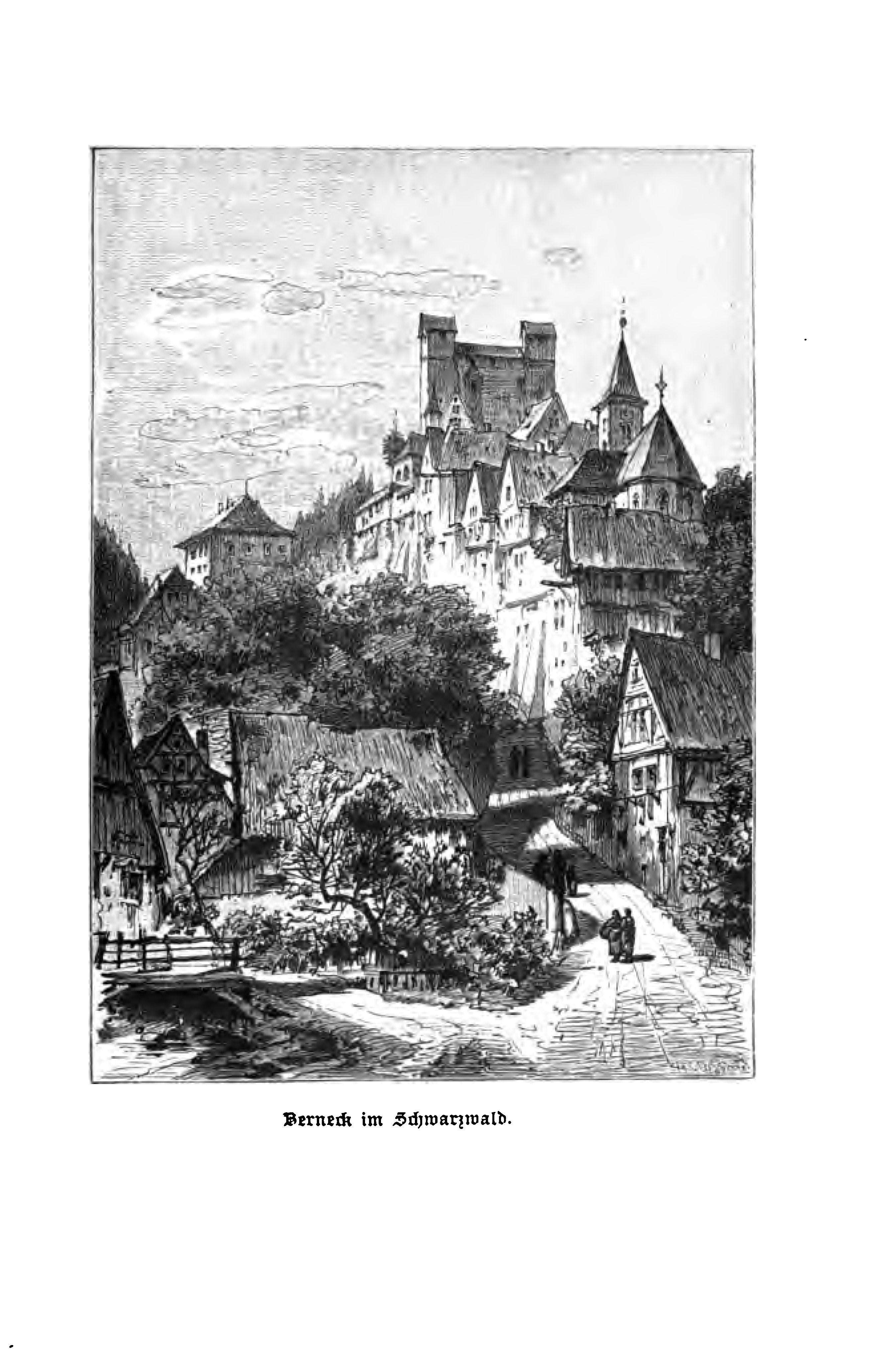 This is a scan of the historical document